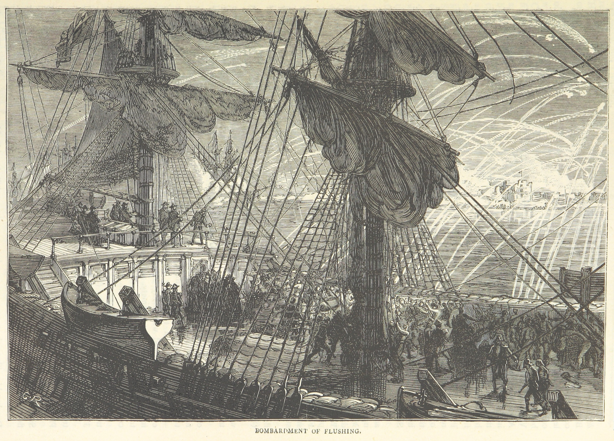 The 1809 Walcheren Campaign in the War of the Fifth Coalition.